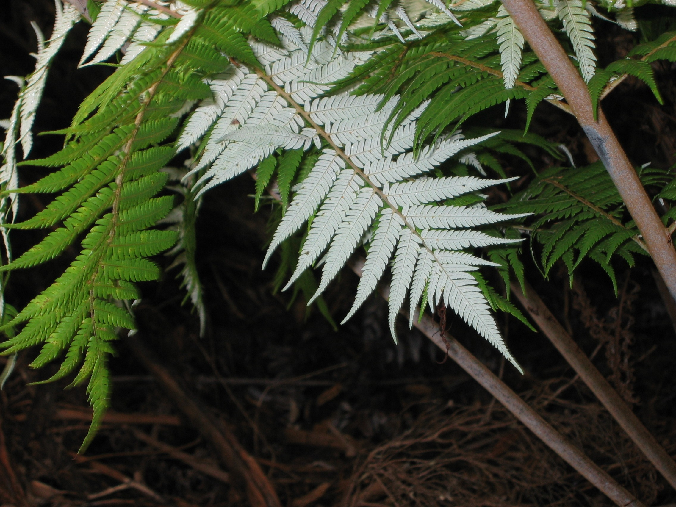 Silver Fern Cyathea dealbata: shows silvery underside on frond. Photo taken 26 March 2005.